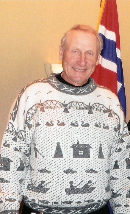 Jan Stenerud - American Football Player, Kicker for Kansas City Chiefs & Green Bay Packers. Football Hall of Fame. Norwegian born.